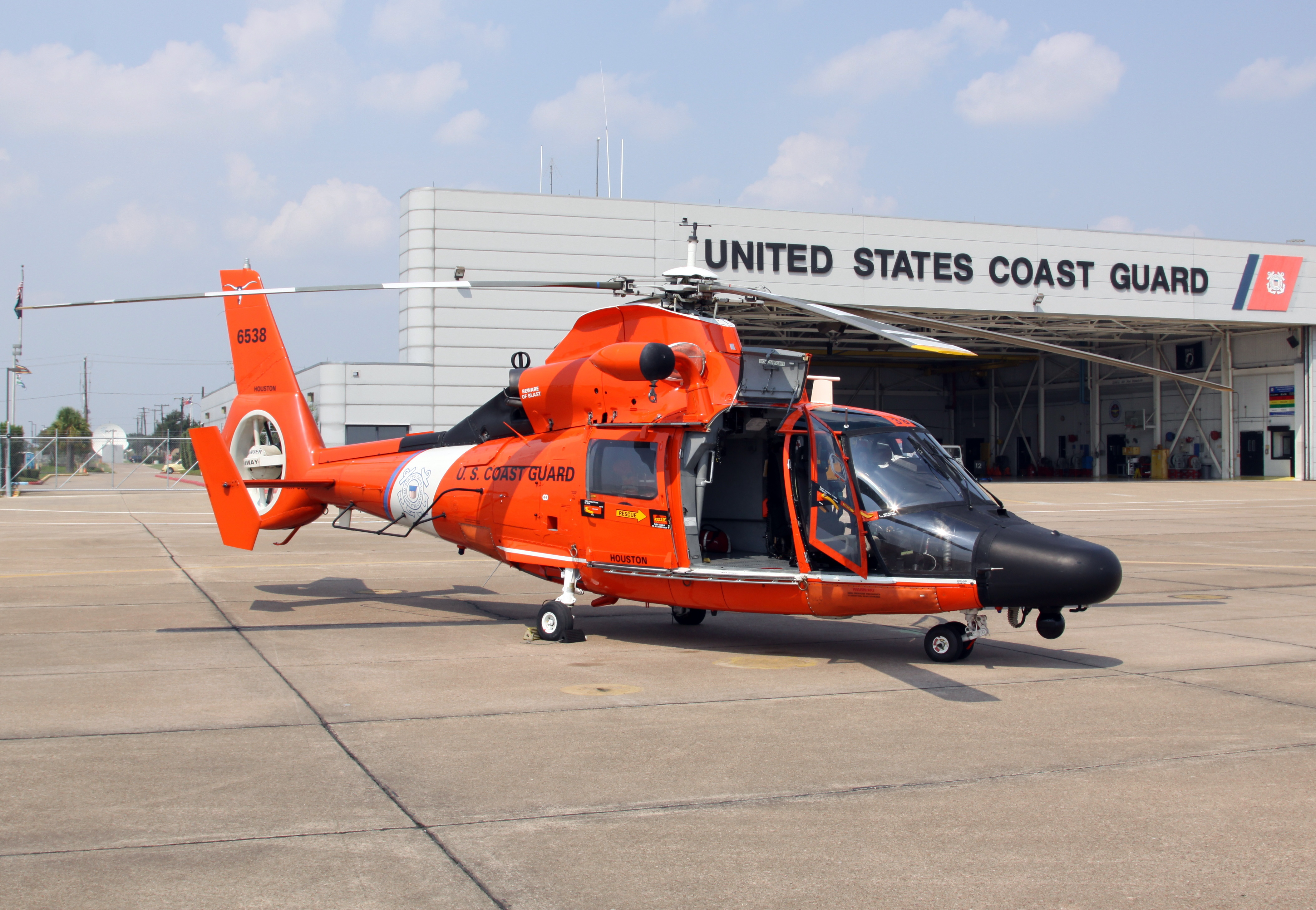 A USCG MH-65C helicopter stands ready on CGAS Houston's ramp at Ellington Field JRB in Houston, Texas.